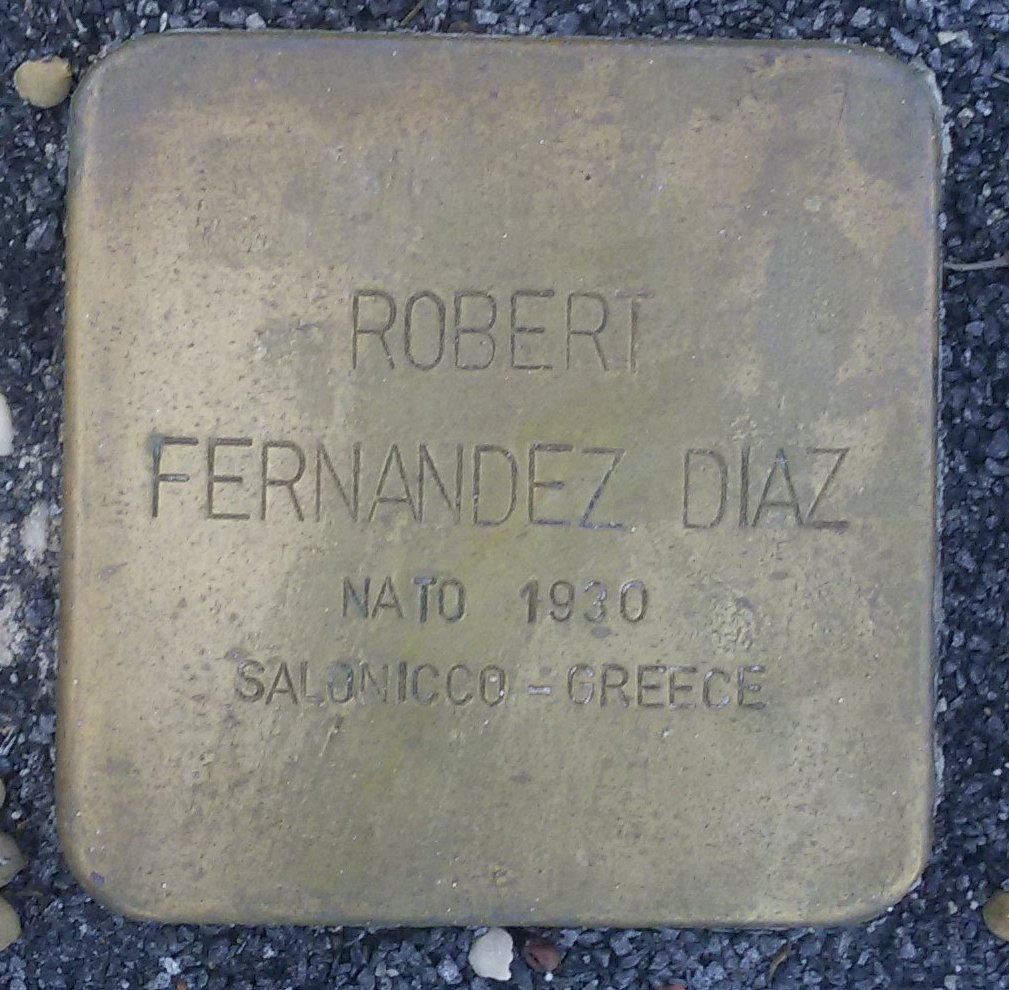 Stolperstein in Meina (NO) Italy